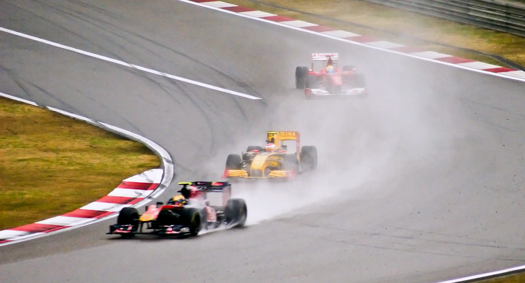 Alguersuari in the wet